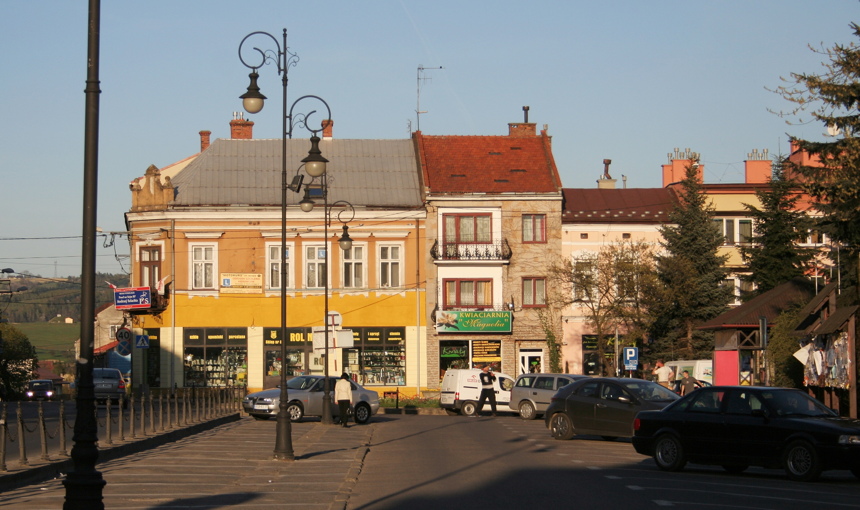 The market place in Strzyżów, Poland.